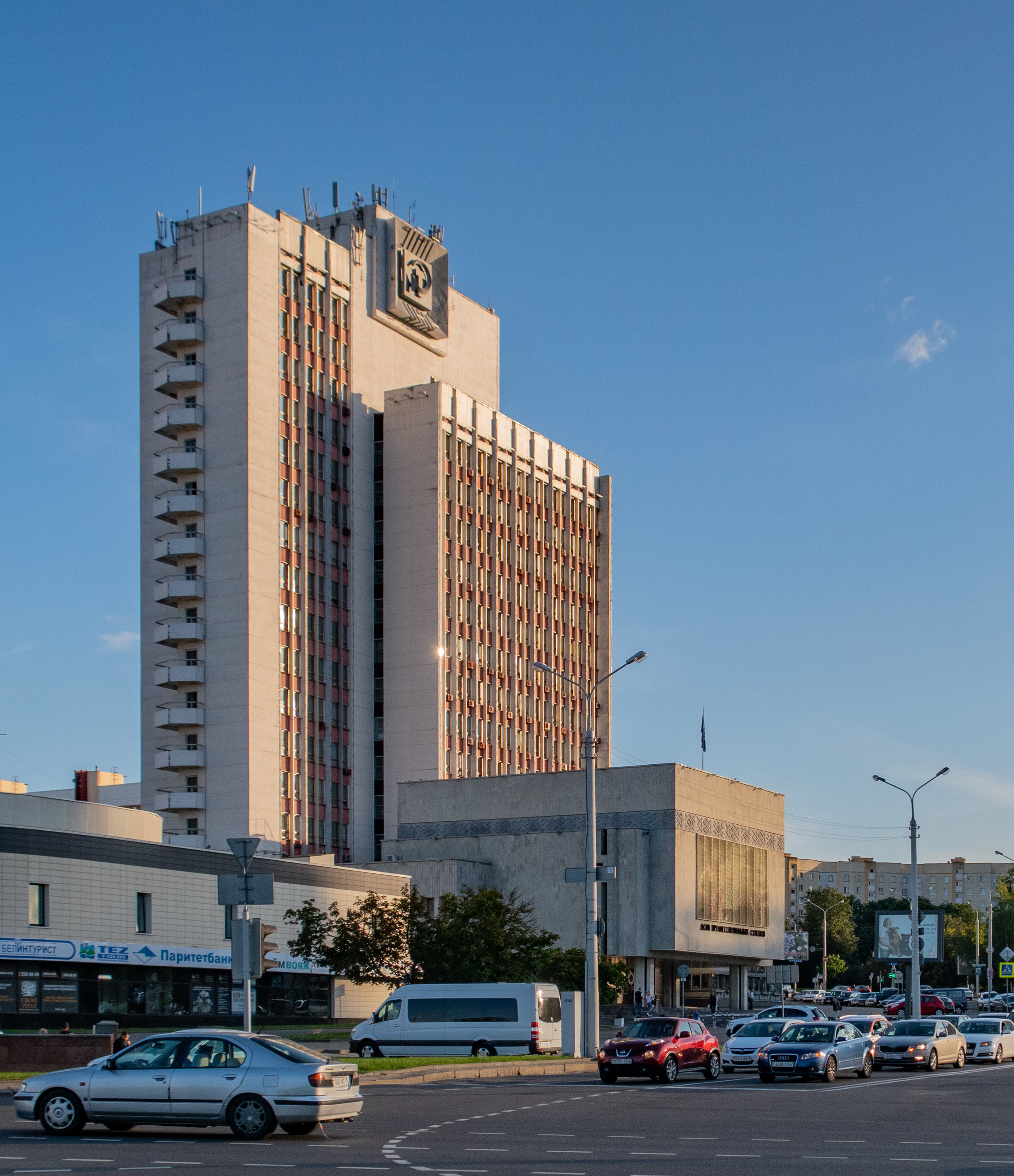 Intersection of Mieĺnikajte street and Pieramožcaŭ avenue. Minsk, Belarus